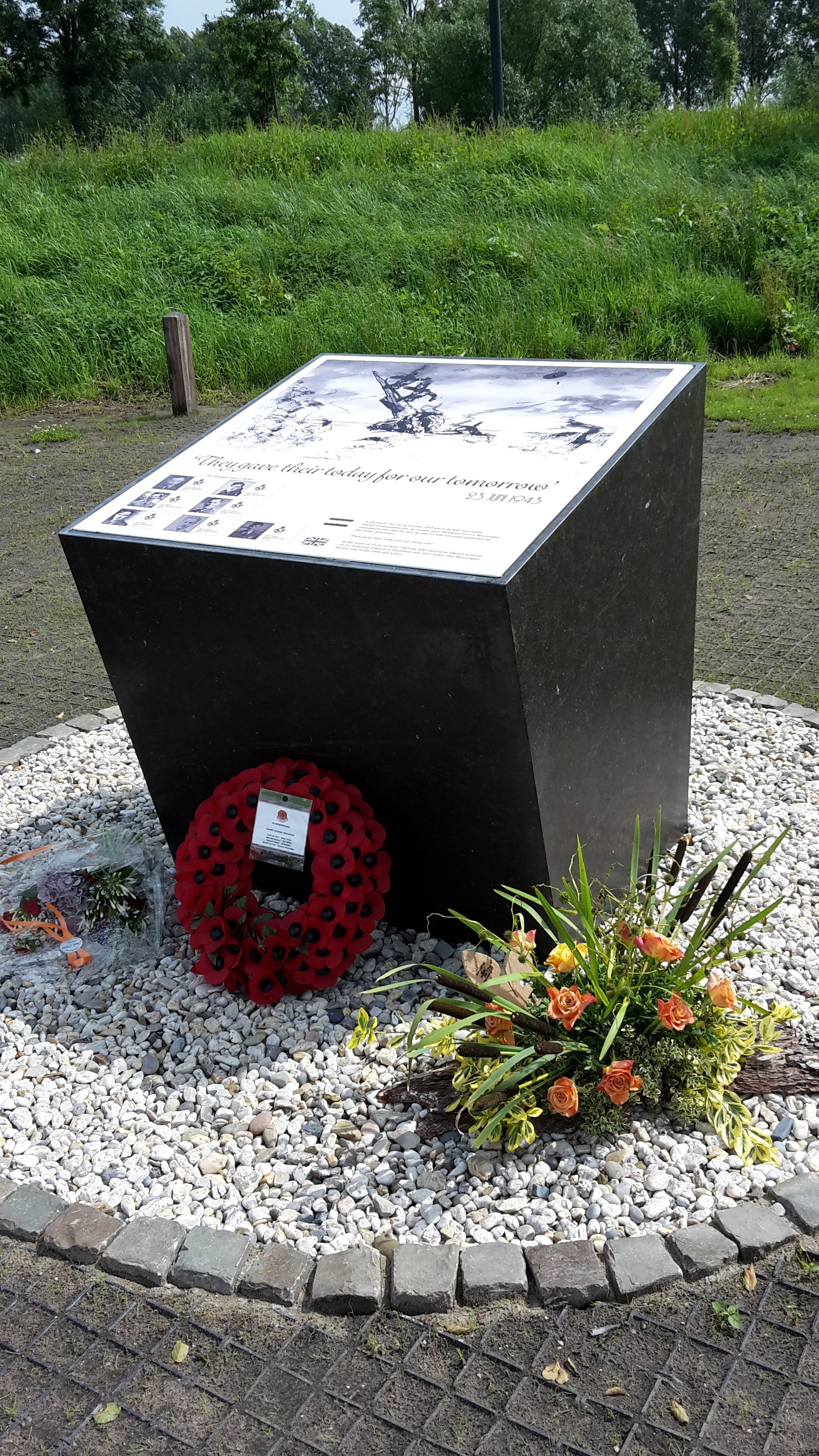 Memorial remembering the crew of the British Lancaster bomber LM325 of 101 sqn RAF, that crashed in Beuningen, The Netherlands on june 23, 1943